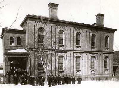 circa 1866 dedication of Winslow Labs building, now on the National Register of Historic Places.